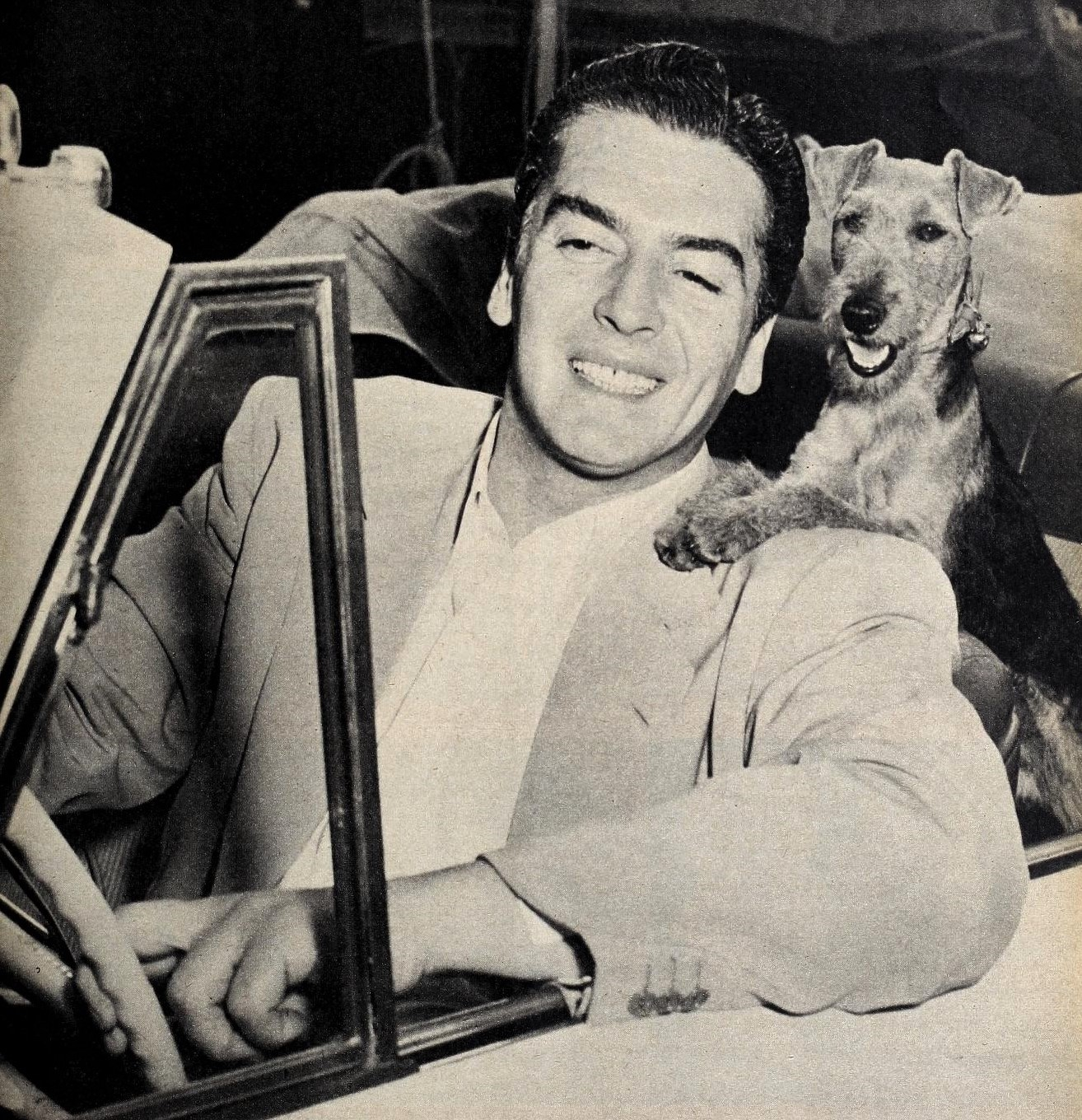 Victor Mature and his dog